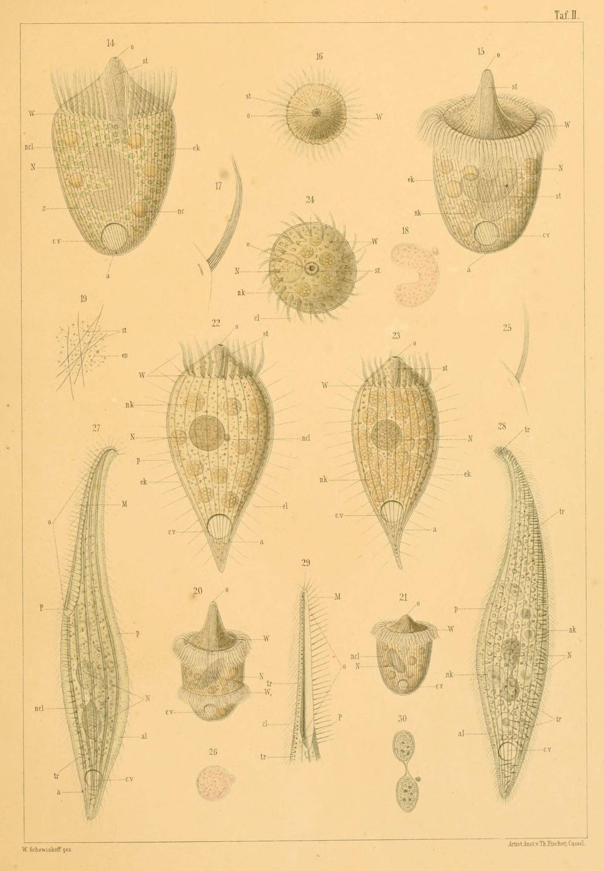 Plate II, original description as follows: Fig. 14—21. Didinium Balbianii. Bütschli. Fig. 14. Seitliche Ansicht eines sich rückwärts bewegenden Individuums mit schwach hervorspringendem Mundkegel. Vergr. 660. Fig. 15. Seitüche Ansicht eines sich vorwärts bewegenden Individuums mit vorgestrecktem Mundkegel. Vergr. 660. Fig. 16. Orale Ansicht. Vergr. 370. Fig. 17. Eine Cilienreihe des Wimperkranzes in seitlicher Ansicht. Vergr. 1350. Fig. 18. Ein isolirter, fixirter und gefärbter Makronucleus mit anliegendem Mikronucleus. Vergr. 660. Fig. 19. Einzelne Stäbchen des Stäbchenapparates durch Zerfliessenlassen des Thieres isolirt. Vergr. 660. Fig. 20. Ein in Theilung begriffenes Individuum mit einem hinteren, neu angelegten Wimperkranze und cylindrischem Kerne. Vergr. 370. Fig. 21. Ein aus der Theilung hervorgegangenes Individuum (hinterer Sprössling). Vergr. 370. Fig. 22—26. Dinophrya Lieberkühnii. Bütsehh. Fig. 22. Seitliche Ansicht. Vergr. 660. Fig. 23. Hinteres Körperende in einen langen schwanzartigen Fortsatz ausgezogen. Vergr. 660. Fig. 24. Orale Ansicht. Vergr. 660. Fig. 25. Eine Cilienreihe des Wimperkranzes in seitUcher Ansicht. Vergr. 660. Fig. 26. Ein isolirter, fixirter und gefärbter Makronucleus mit anliegendem Mikronucleus. Fig. 27—30. Litonotus fasciola. Ehrbg. sp. Fig. 27. Ansicht des Thieres von der linken Seite. Vergr. 1070. Fig. 28. Ansicht des Thieres von der rechten Seite. Vergr. 1070. Fig. 29. Vordere Körperhälfte von der Ventralseite betrachtet. Vergr. 1070. Fig. 30. Ein isolirter, fixirter Kern mit anliegendem Mikronucleus. Vergr. 1070.